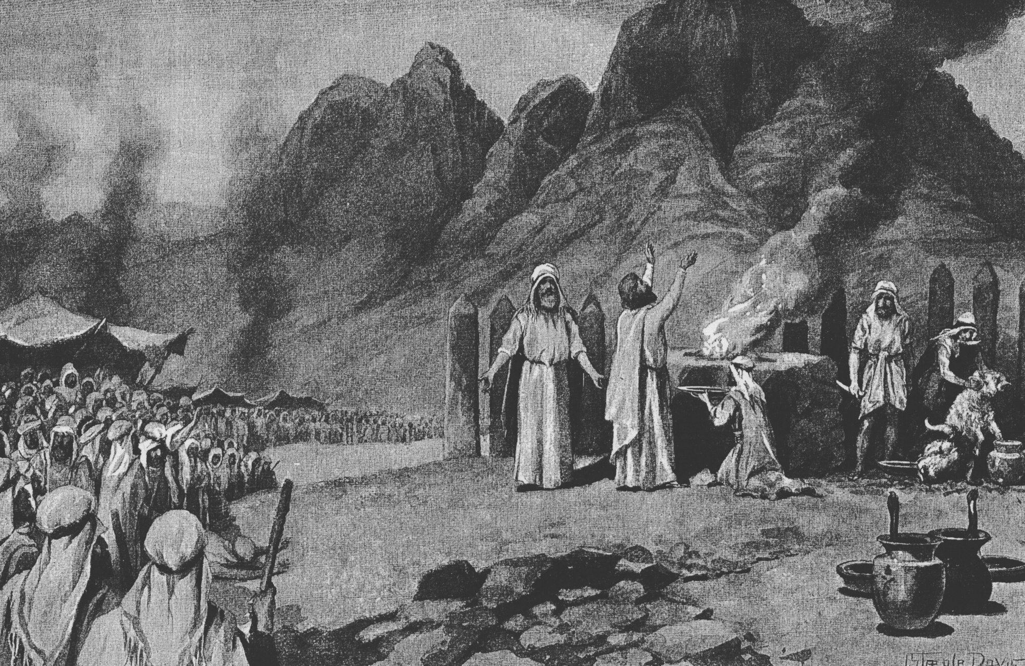 The Covenant Confirmed, by John Steeple Davis (1844-1917), as in Exodus 24.